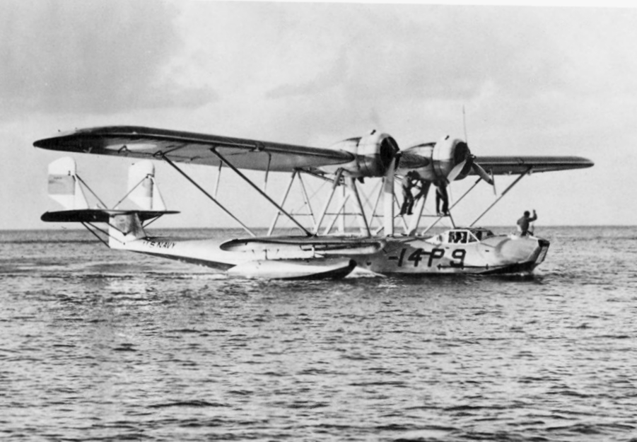 A U.S. Navy Consolidated P2Y-2 of Patrol Squadron VP-14 approaching shore at an unidentified location. Note members of the crew attempting to restart the port engine with hand cranks and the crewman in the bow hatch with an anchor ready to drop in the event the engine cannot be restarted.